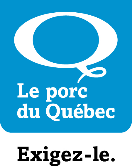 Logo Le porc du Québec